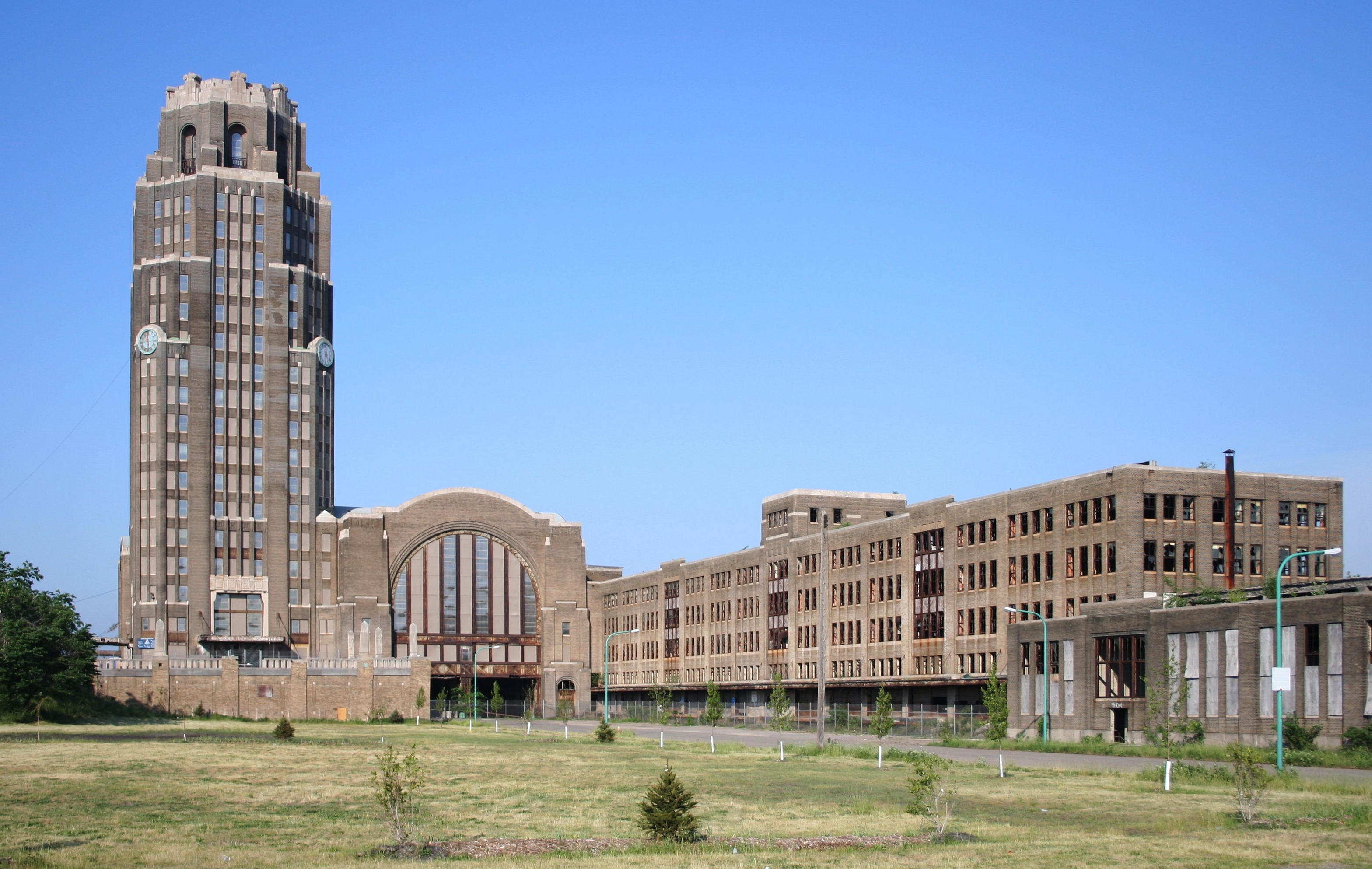 Buffalo Central Terminal, southwest side.